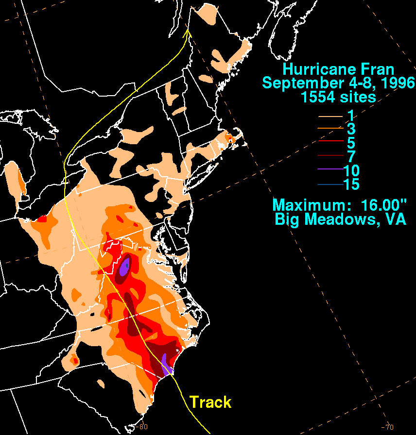 Rainfall produced by Hurricane Fran during September 1996.